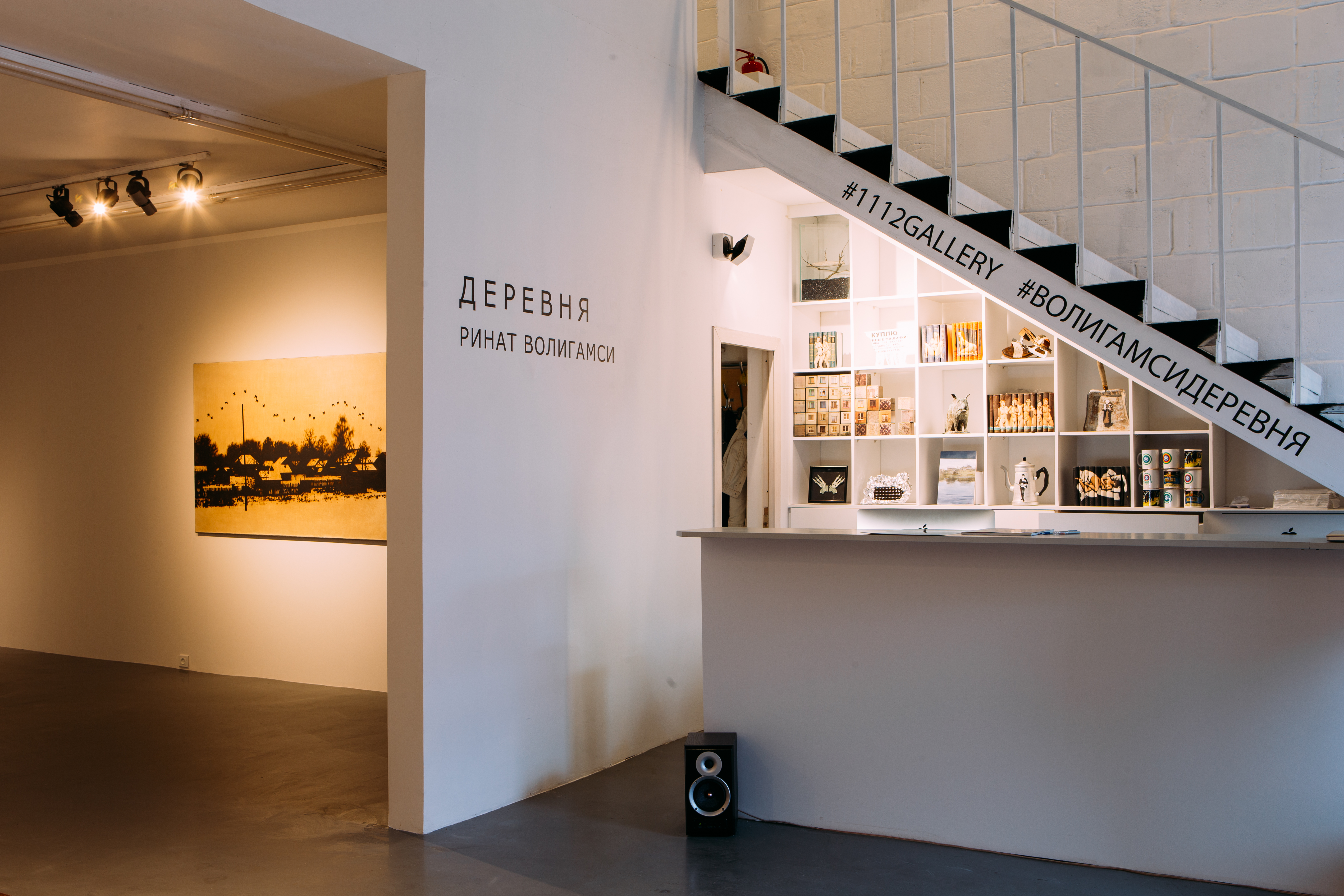 11.12 GALLERY Voligamsi